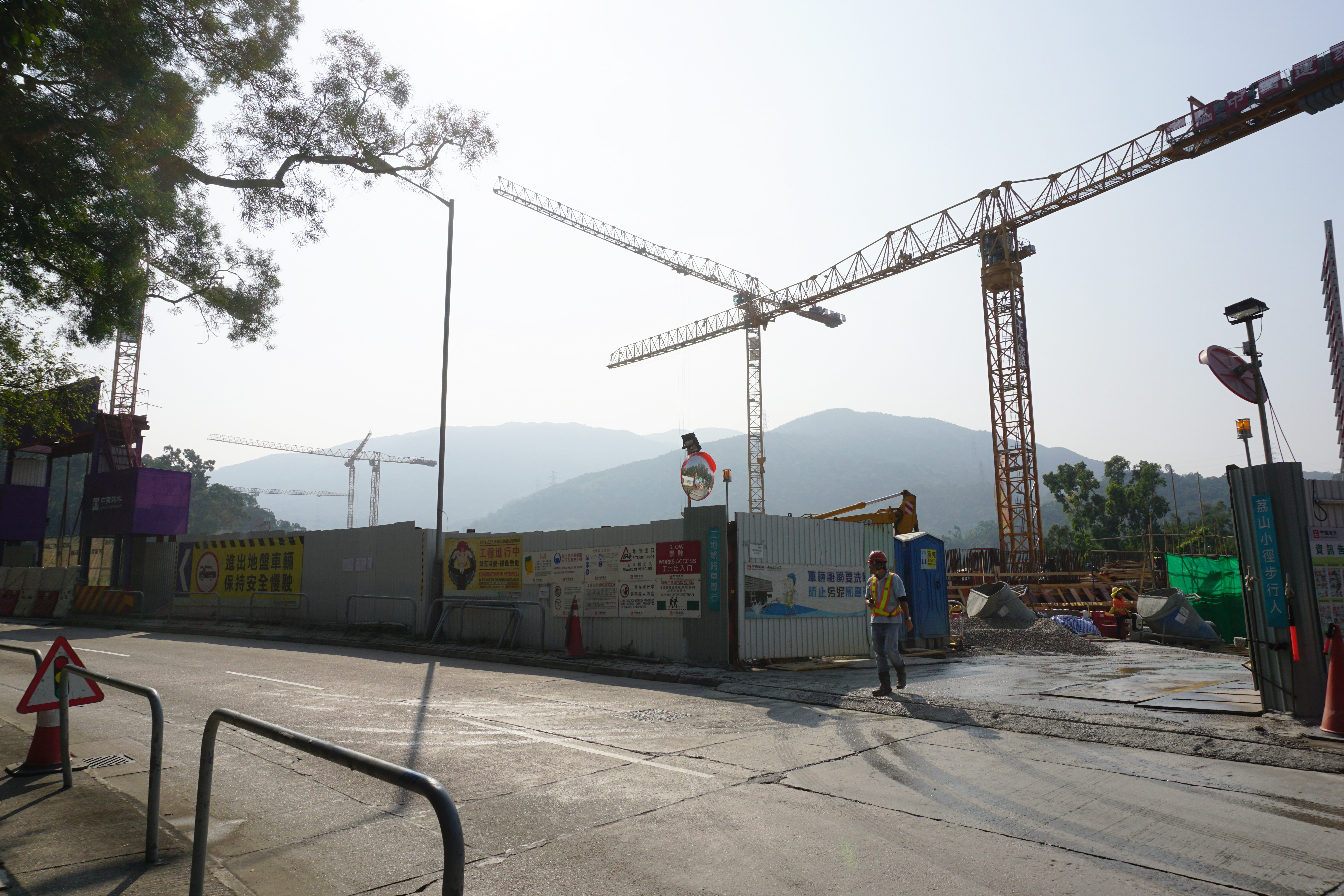 The Regent in Tai Po, Hong Kong.